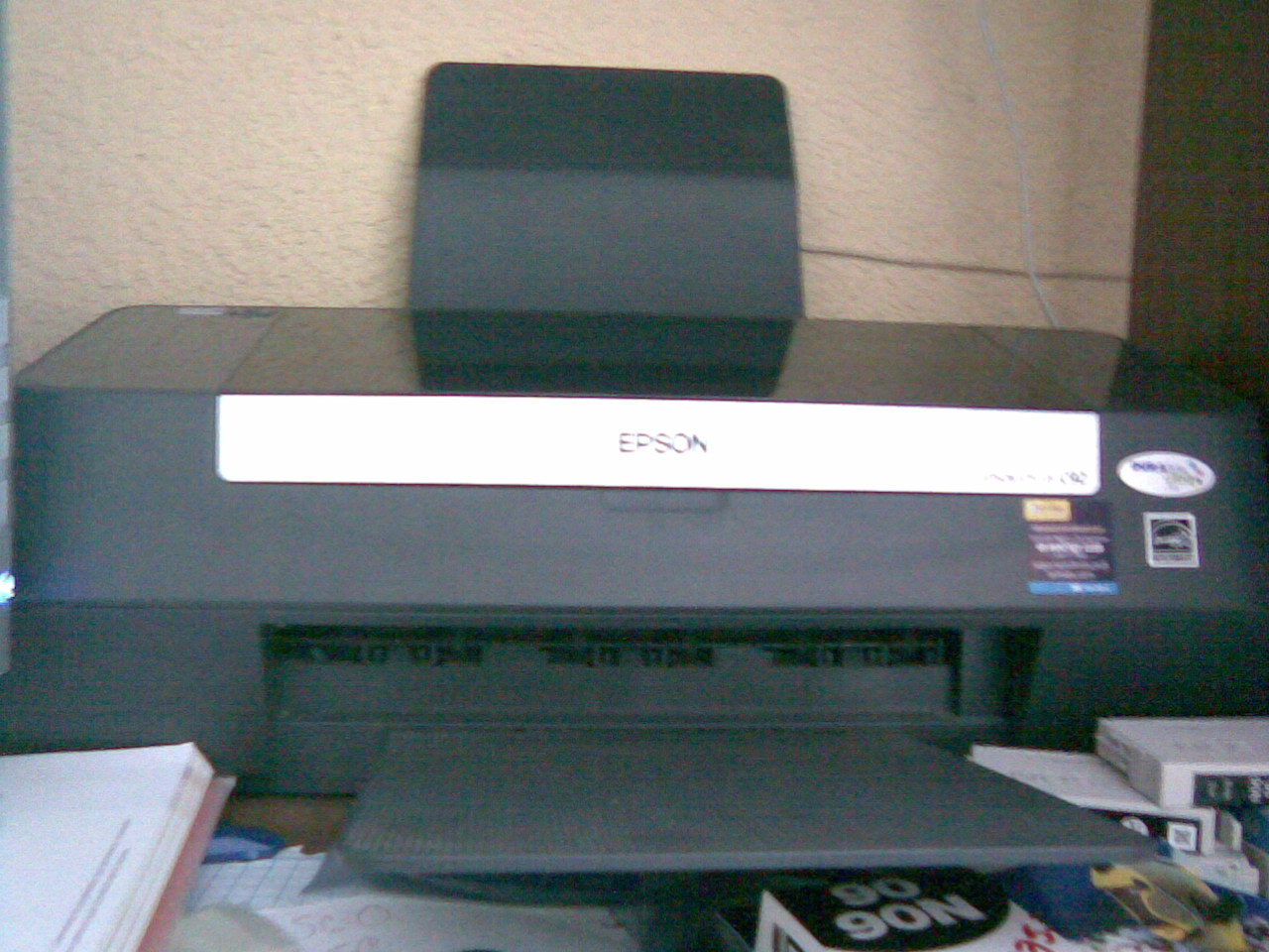 Printer Epson Stylus C92